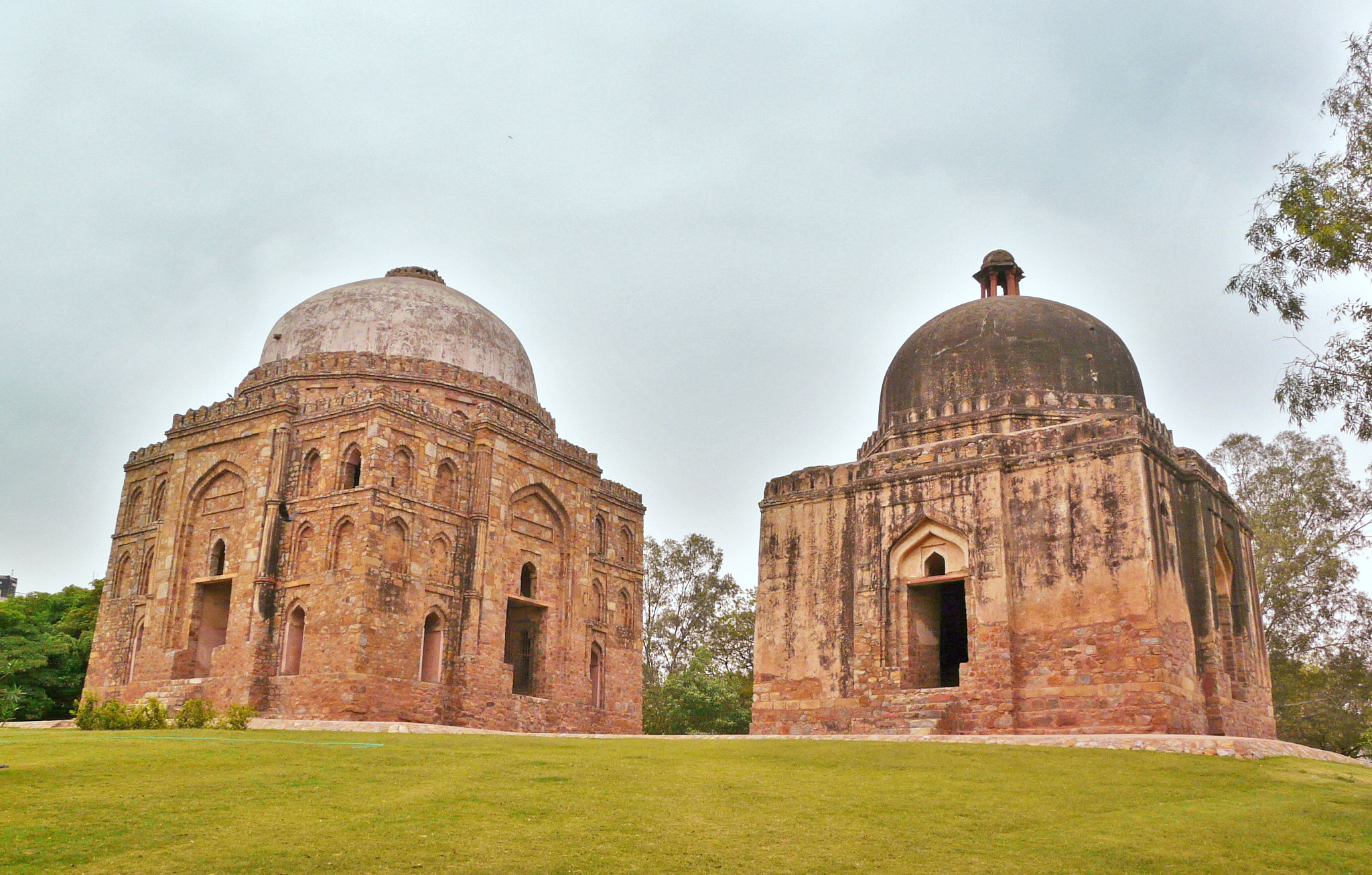 Dadi (grandmother) and Poti (granddaughter) ka Gumbad, near Hauz Khas, Delhi. (The larger one (Dadi) is Lodhi era mausoleum, so constructed later, and the smaller (Poti) is Tughlaq era, so constructed earlier.